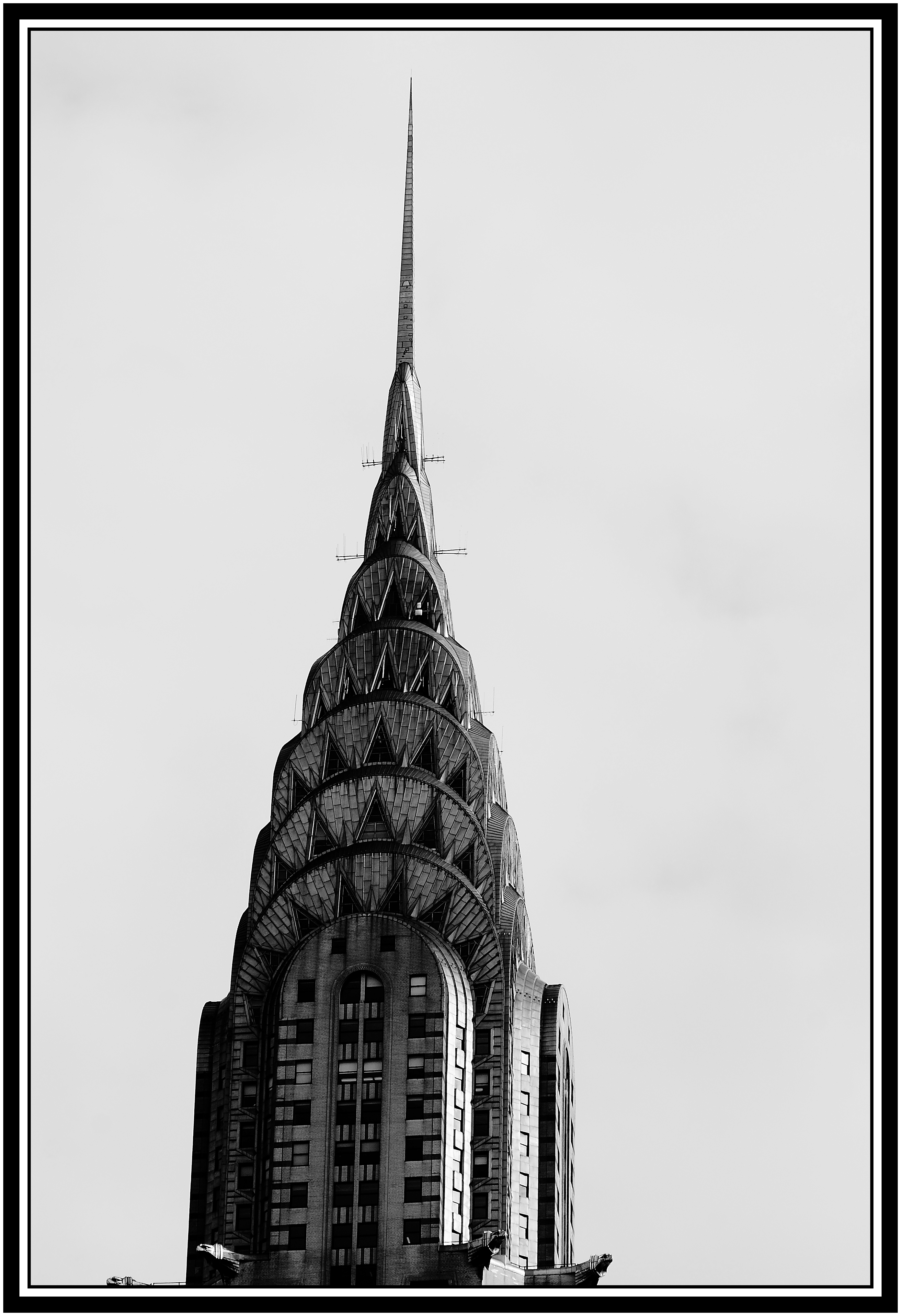 Chrysler Building